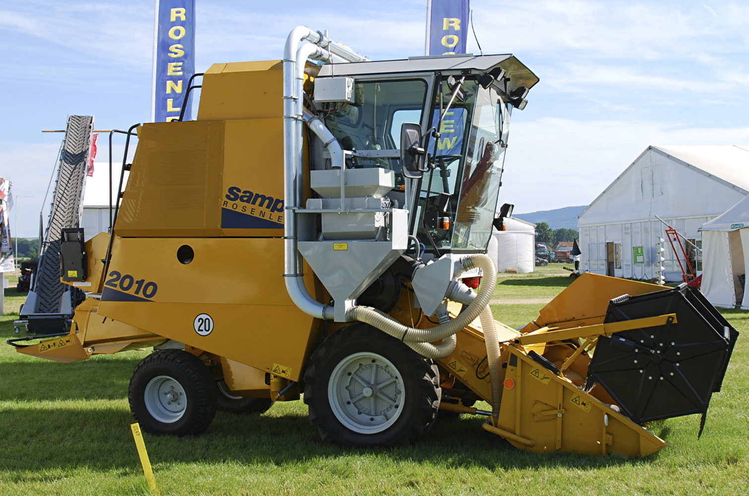 A Sampo Rosenlew SR2010 plot combine (60 kW/80 hp engine) with self-cleaning system, designed for harvesting small seed breeding and experimental fields, presented by Franz Kleine (SR reseller in Germany until the end of 2010); DLG field days 2010, Gut Bockerode, Springe-Mittelrode, Lower Saxony, Germany.